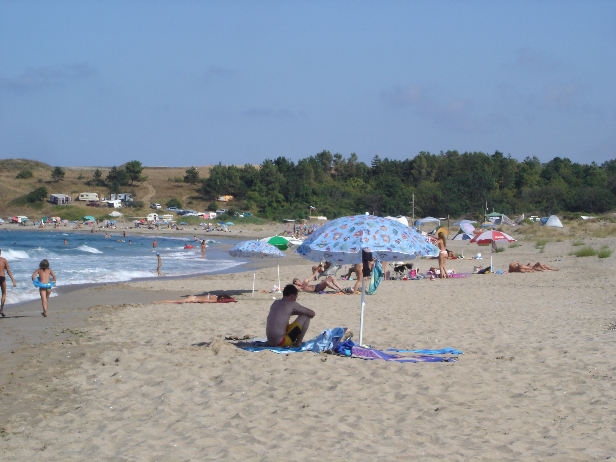 Camping Koral near Lozenets, Bulgaria